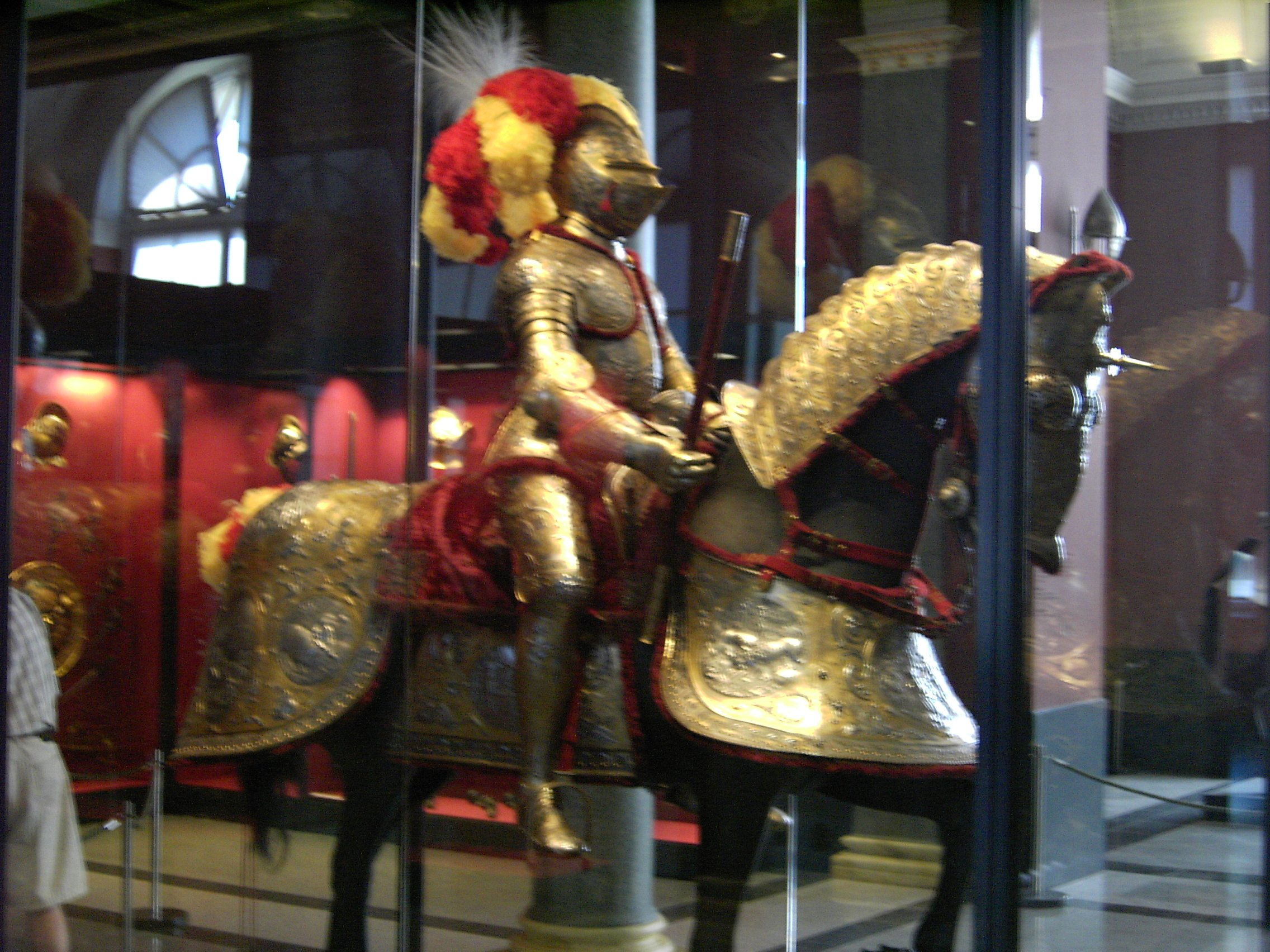 Dresdner Zwinger, 16th or 17th century armour and weapons. This is an ornate knight and horse armour.